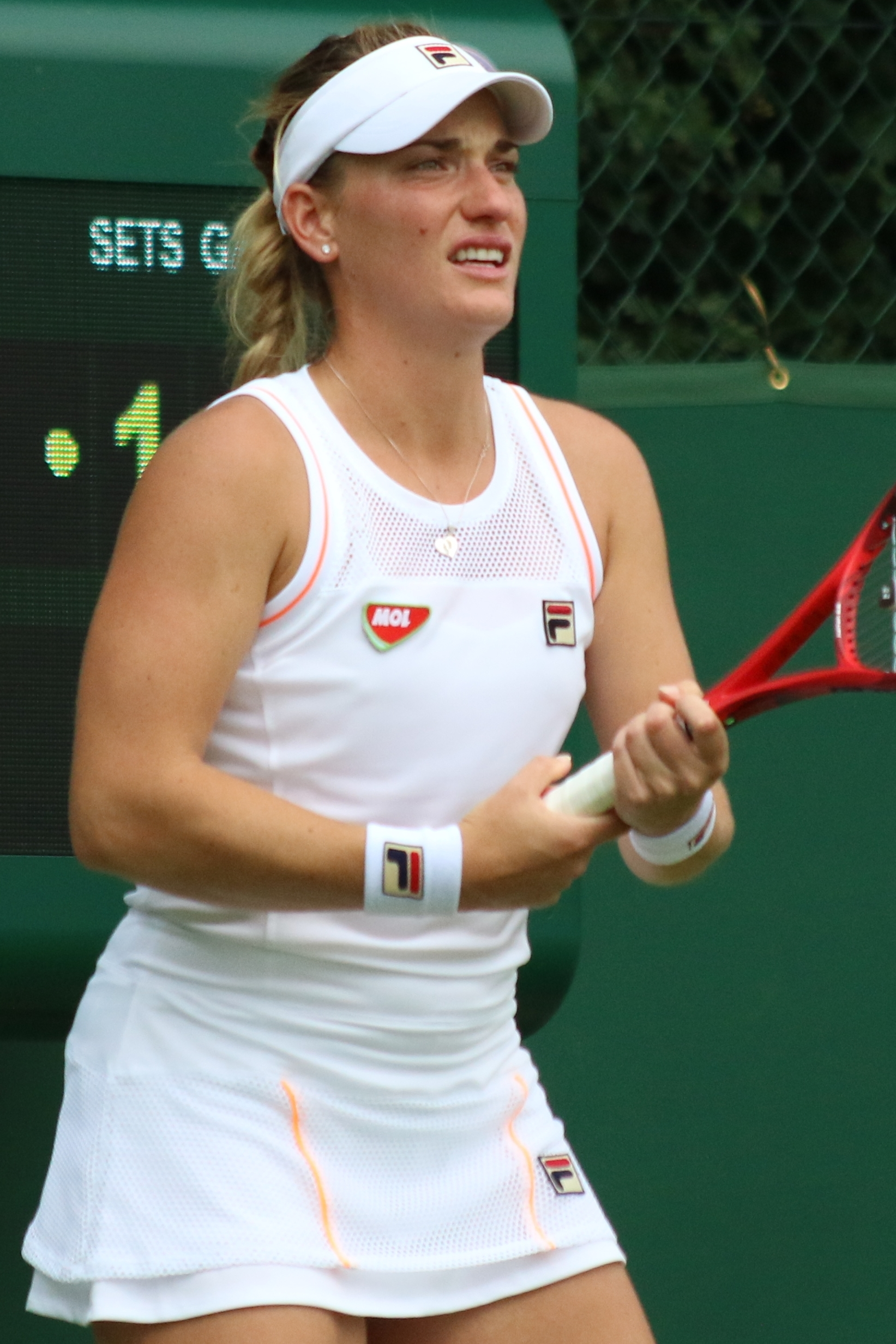 2019 Wimbledon Qualifying Tournament.